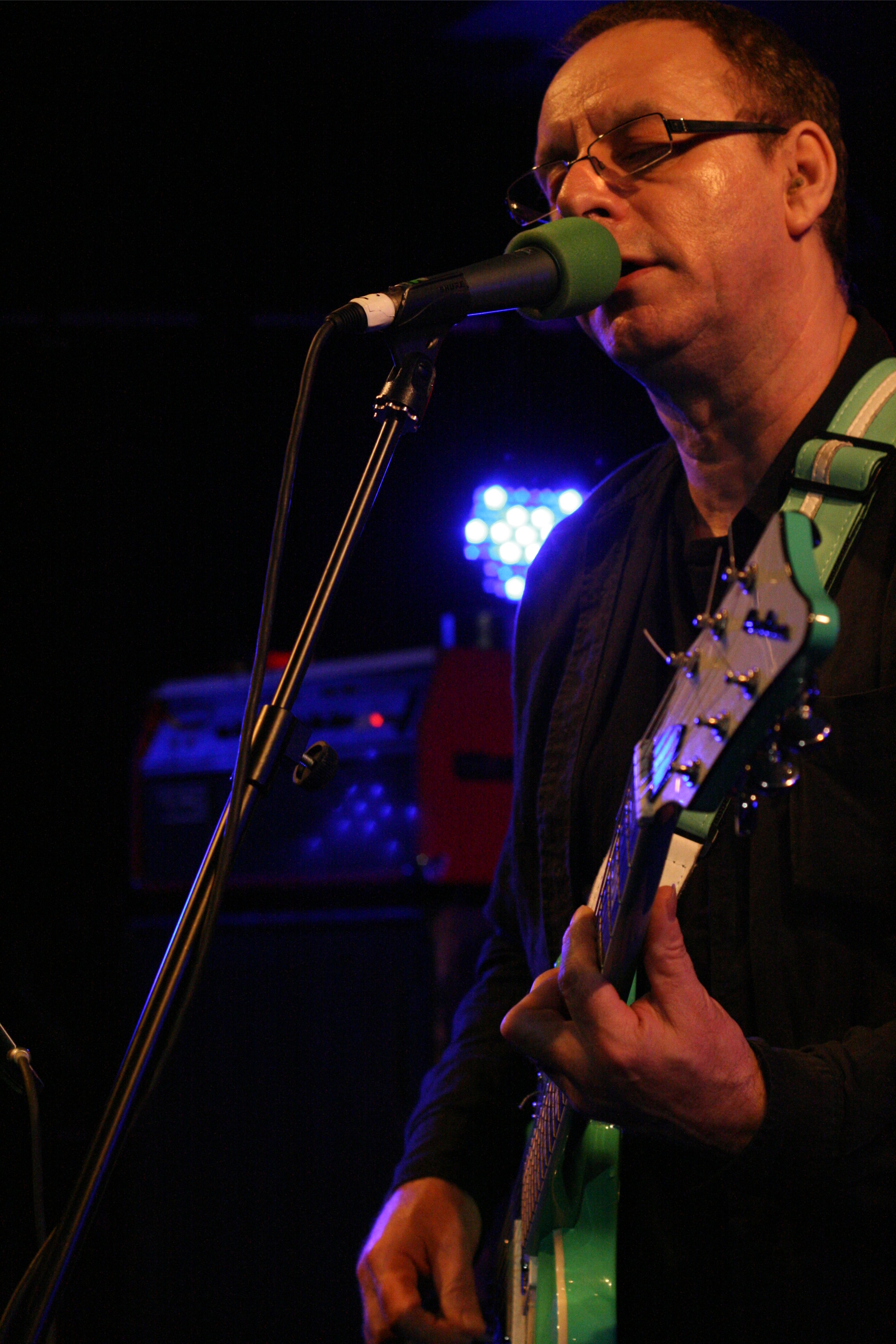 Colin Newman, nov 2011. Photo by Fergus Kelly.